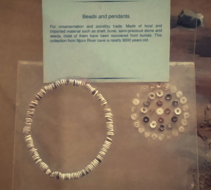 Pendant of the Elmenteitan culture,place of discovery Njoro River caves, exhibited at the Nairobi National Museum